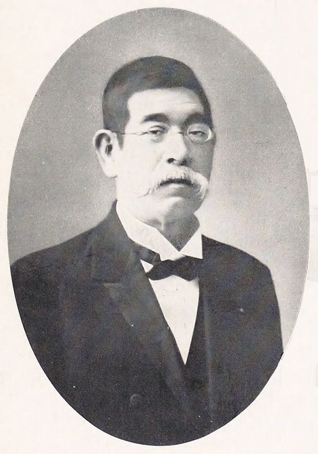 Portrait of Suematsu Kencho (末松謙澄, 1855 – 1920)